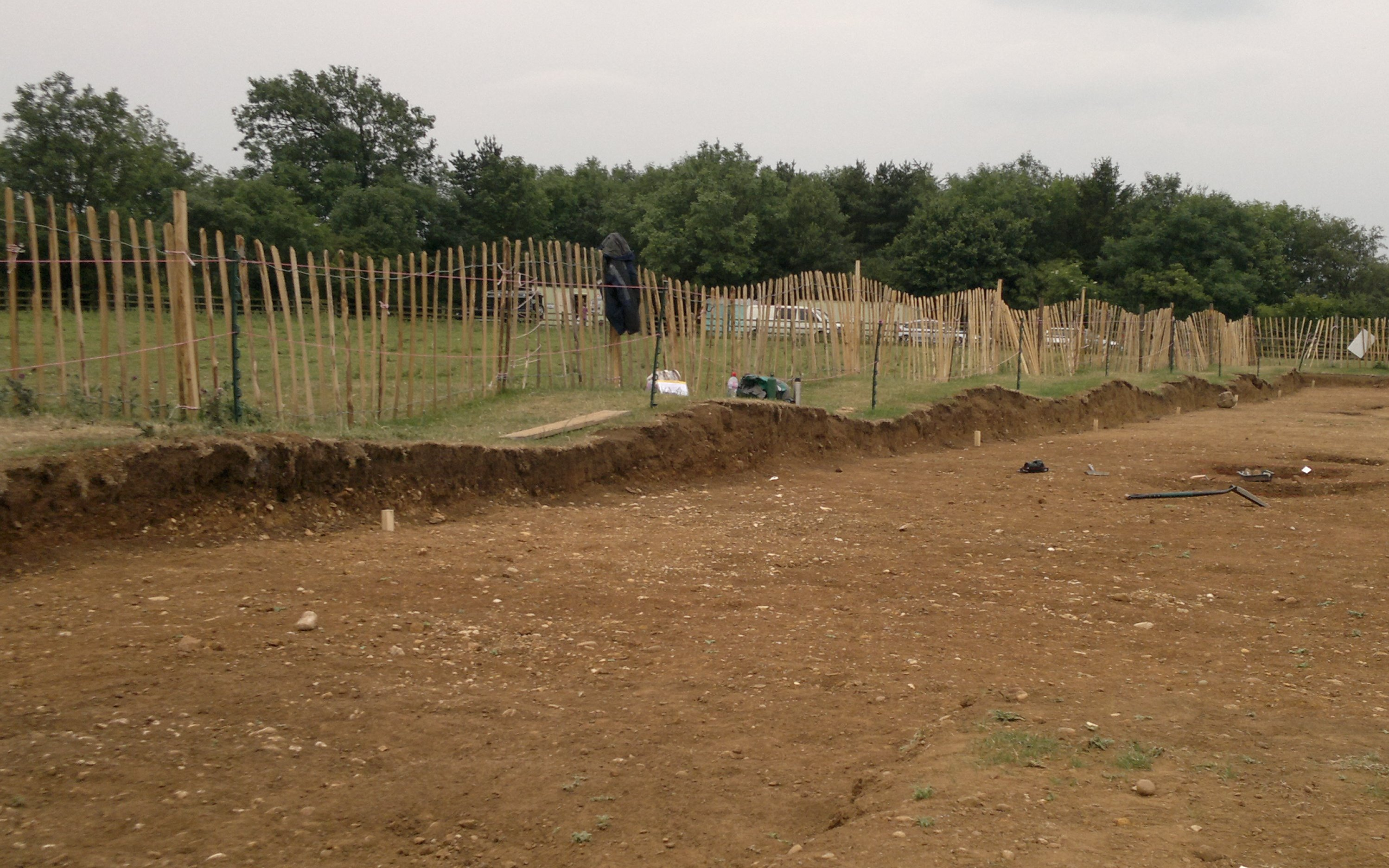 Atlas of Hillforts 1000 Ploughing in the medieval period on Burrough Hill, an Iron Age hillfort, has left traces of ridge and furrow on the site. Here excavations in 2011 have been cut through the ridge and furrow, making it more obvious. Note also the orangey colour of the soil which is due to traces of iron.